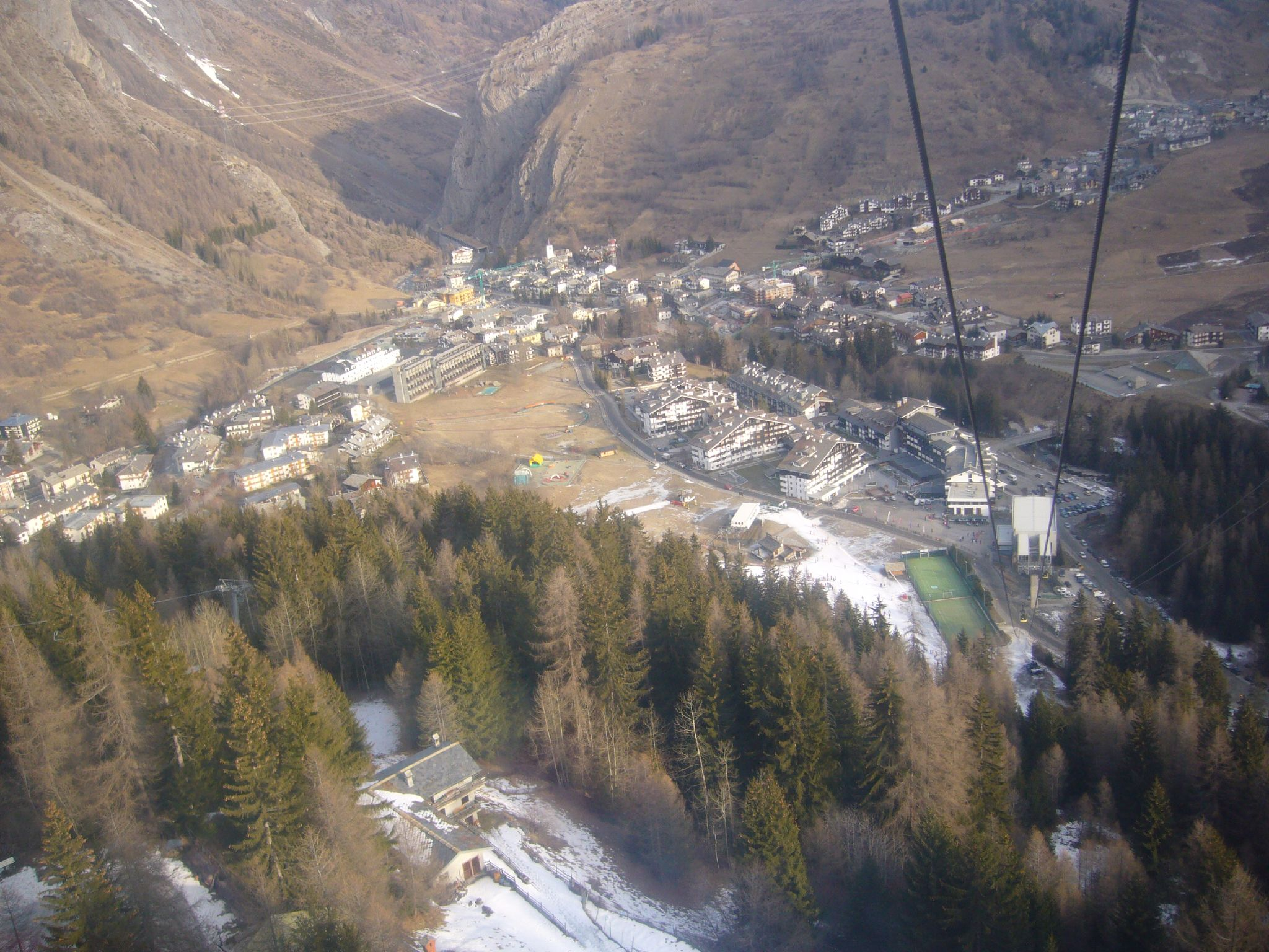 View of La Thuile from the chairlift of the way up. You can see that it was only a short walk from the hotel to the ski lift which was really handy - have you tried walking in ski boots !?!?!